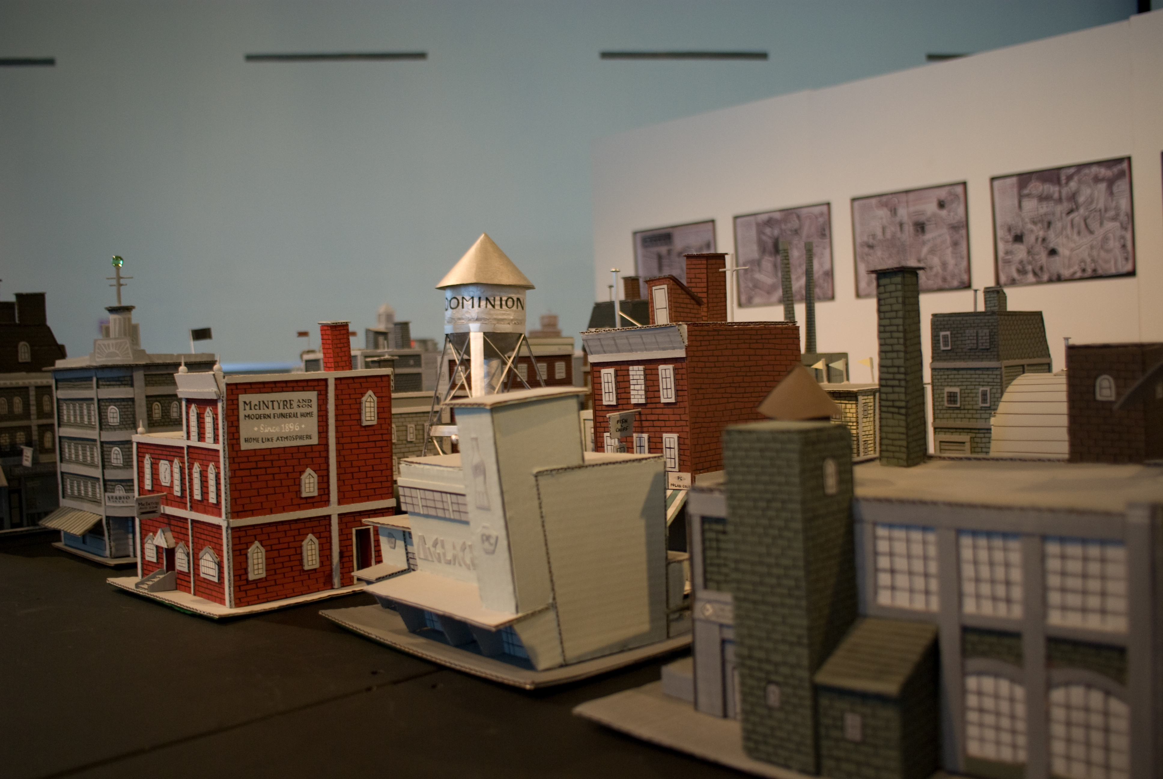 Models of comic book artist Seth's Dominion City, on exhibit at the Confederation Centre of the Arts, Charlottetown, Prince Edward Island